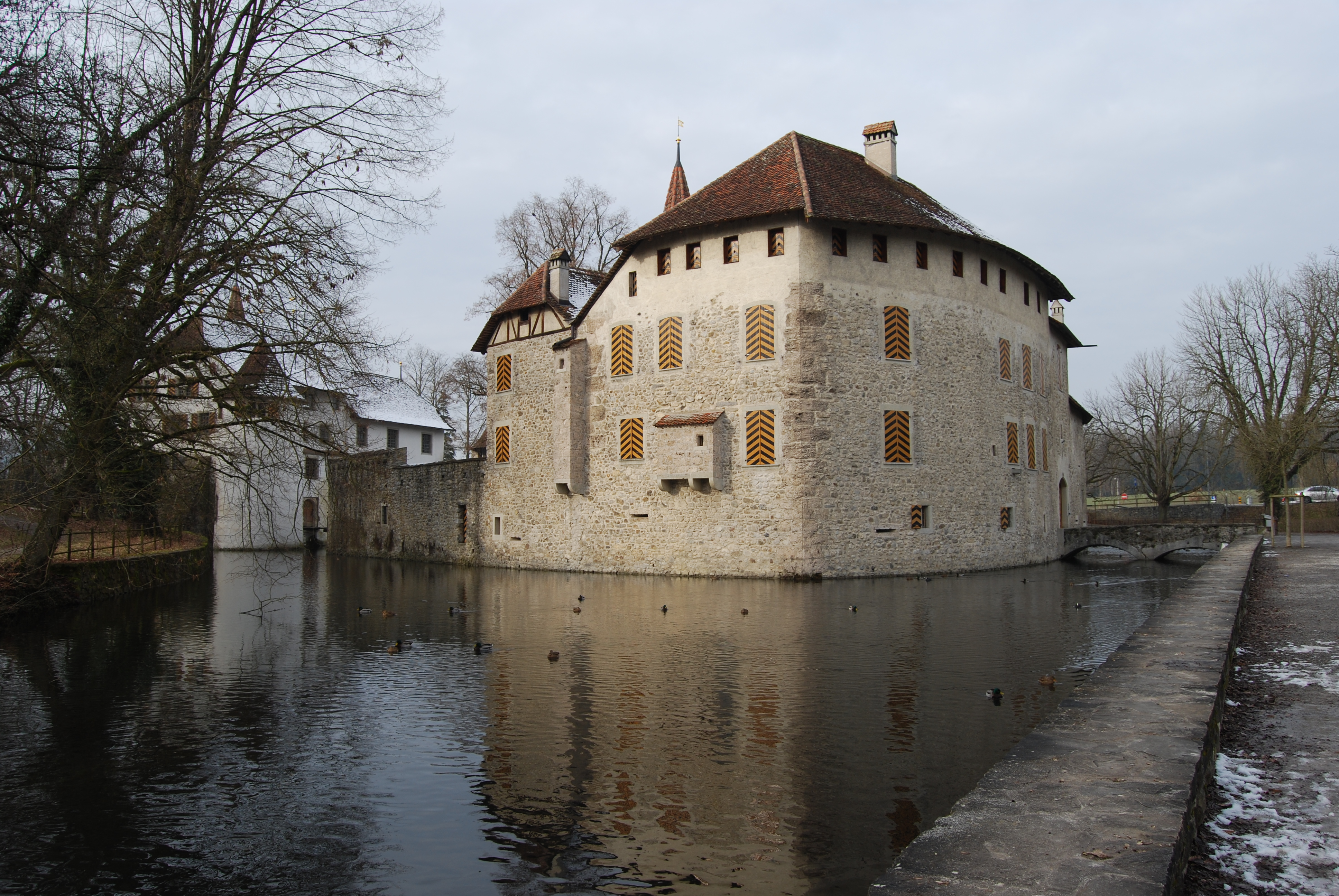 Castle Hallwyl on an island in the river Aabach, Seengen, canton of Aargau, SwitzerlandEsperanto: Kastelo Hallwyl sur insulo en la rivero Aabach, Seengen, Kantono Argovio, Svislando